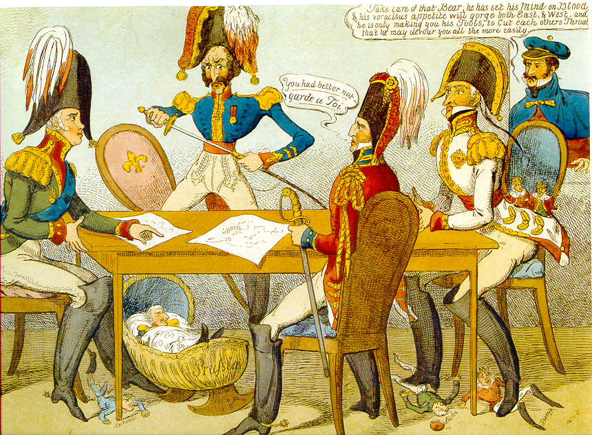 Contemporary cartoon of the Congress of Verona.